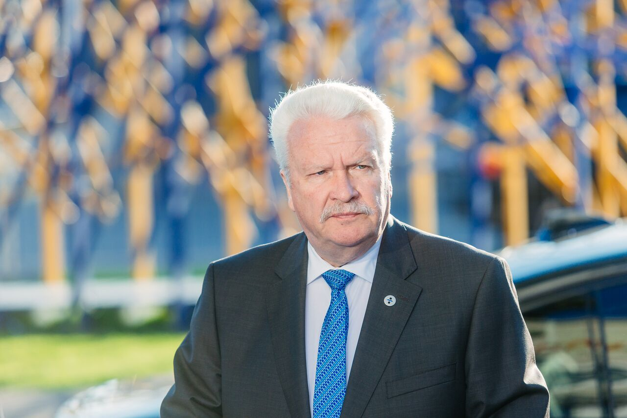 Jānis Dūklavs, Minister, Ministry of Agriculture, Latvia Photo: Arno Mikkor (EU2017EE)